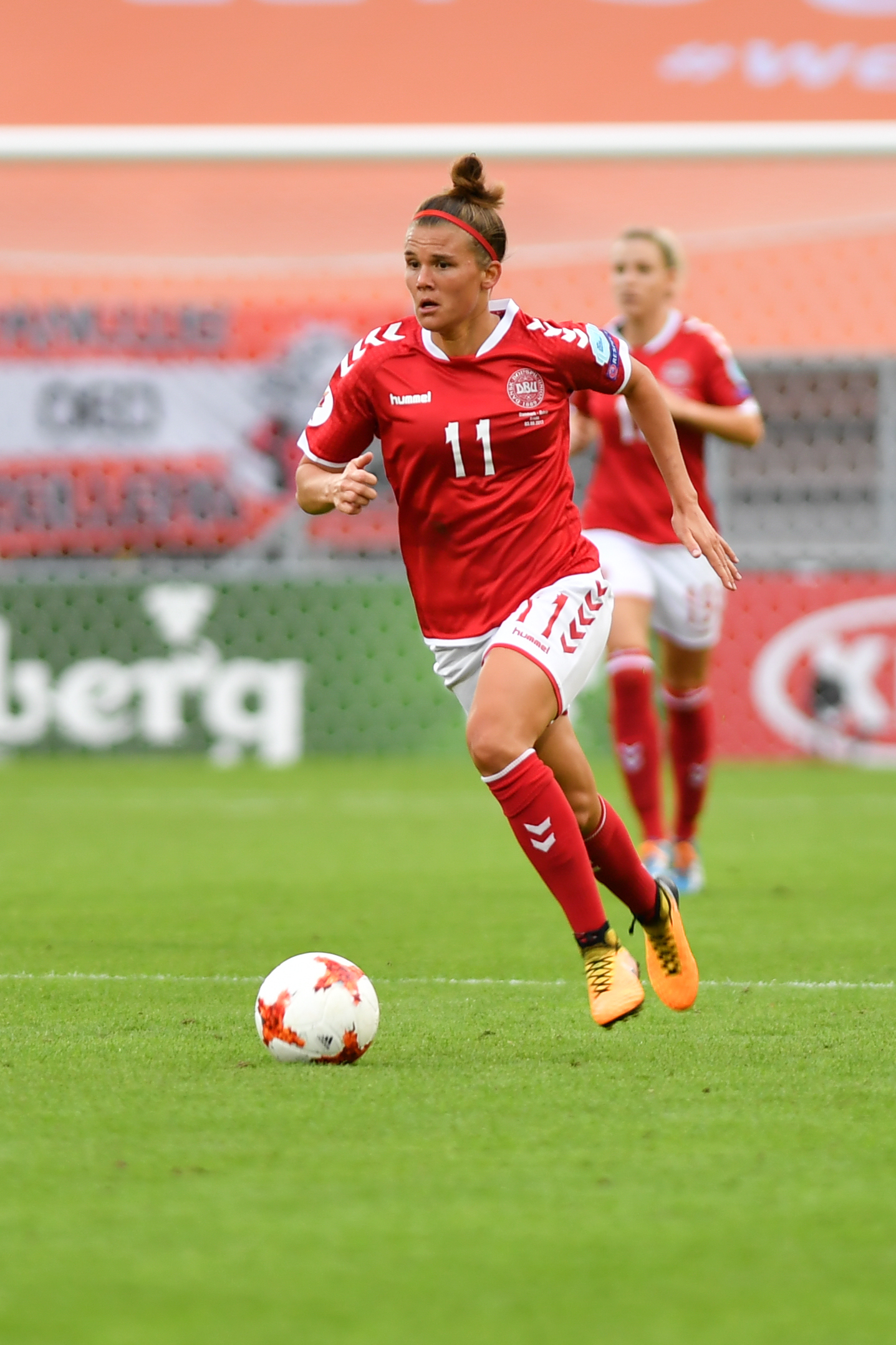 3/8/2017, Breda, Netherlands, sports, soccer, UEFA Women's Euro 2017 - Semifinal - Denmark vs Austria.